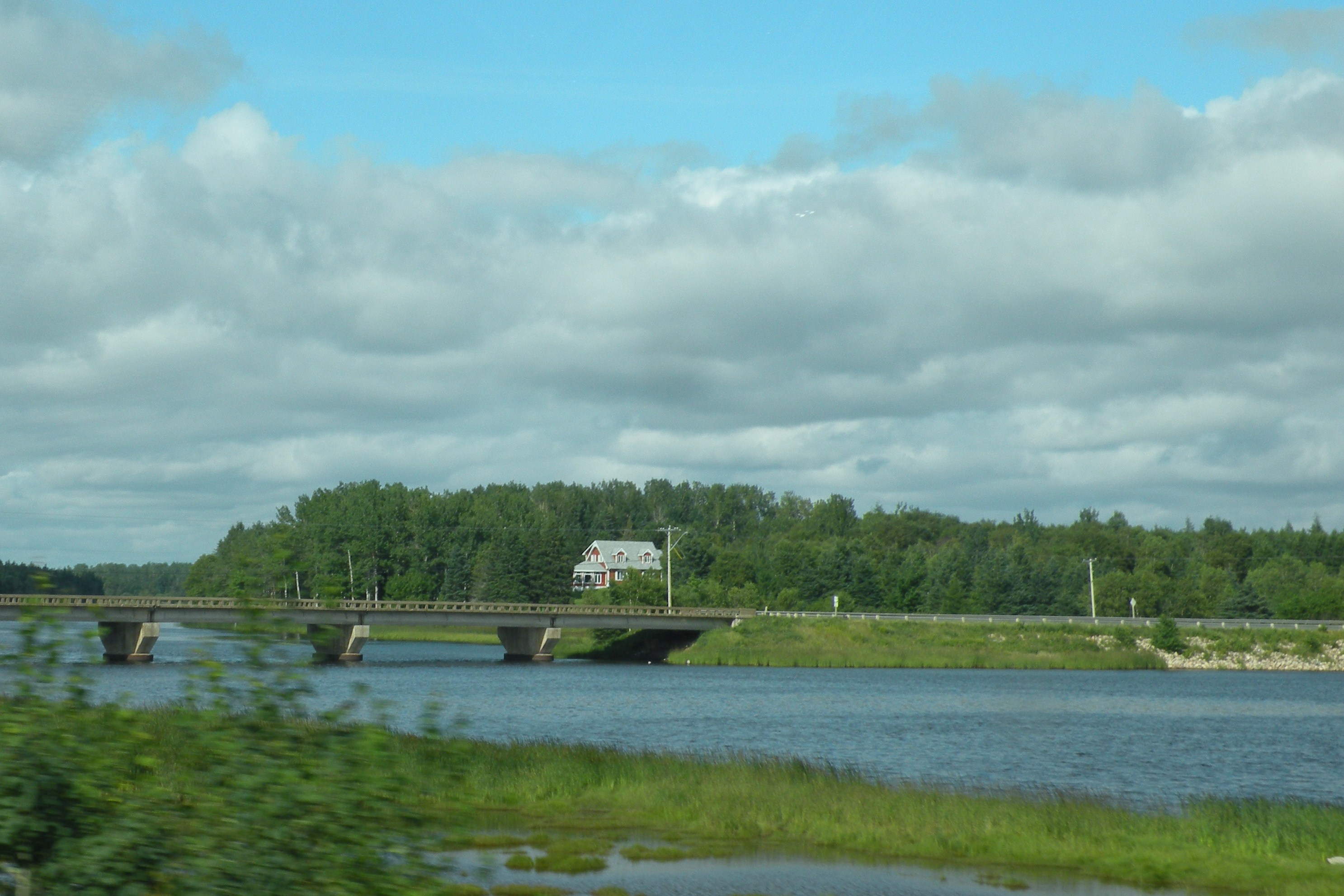 A view of Pokemouche, New Brunswick.